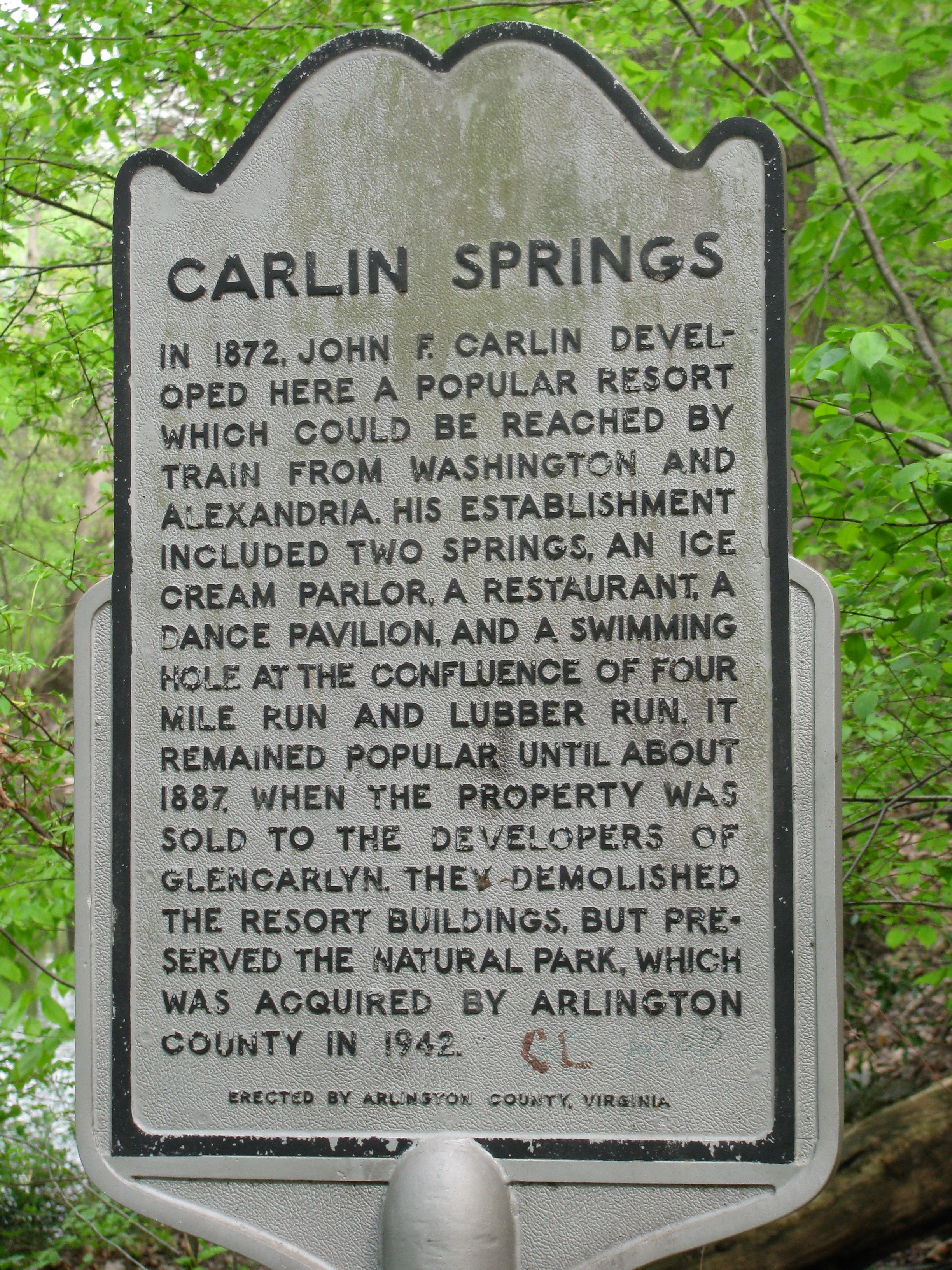 Carlin Springs Historical Marker at Glencarlyn Park along Four Mile Run.